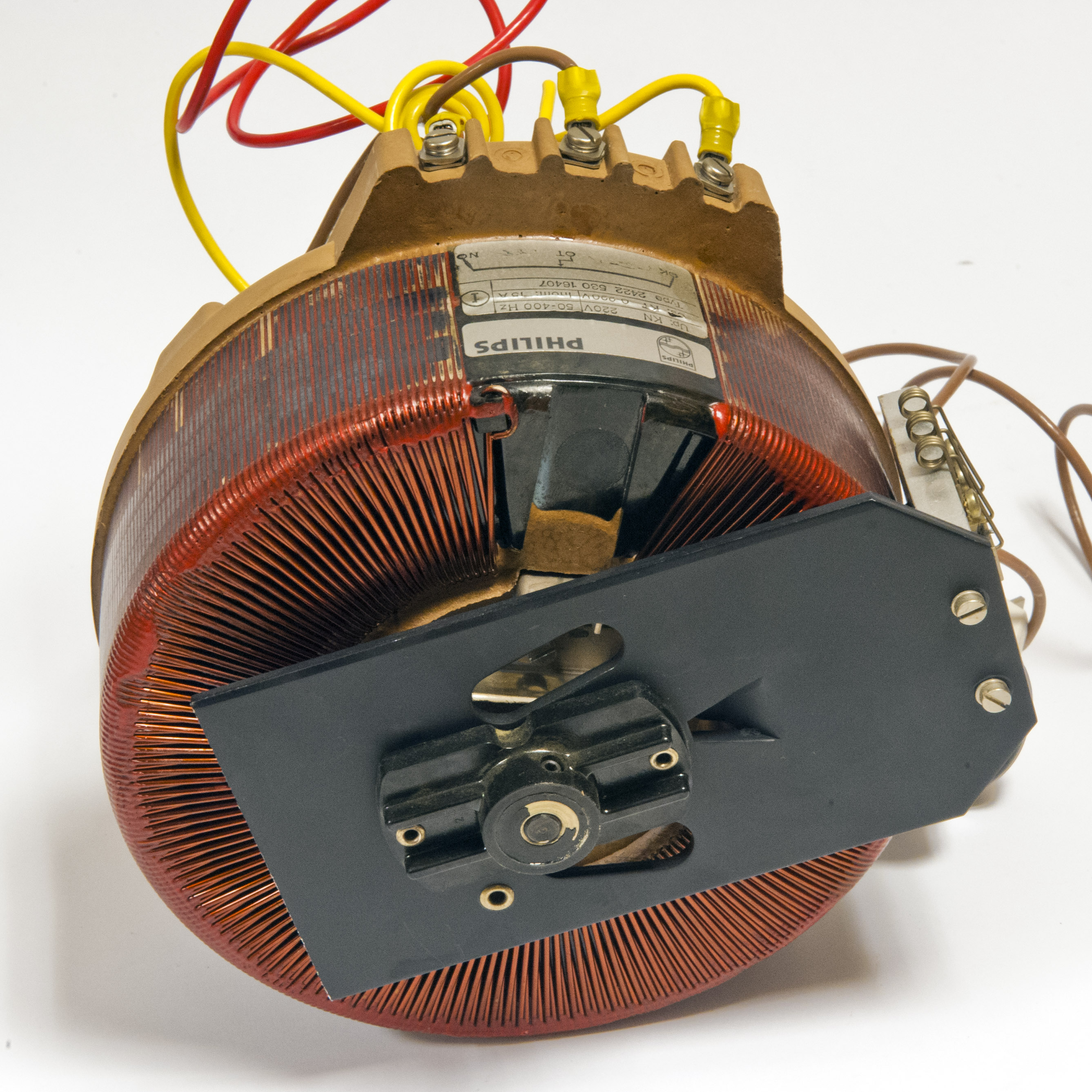 Variable transformer to control voltage in x-ray diffractometer